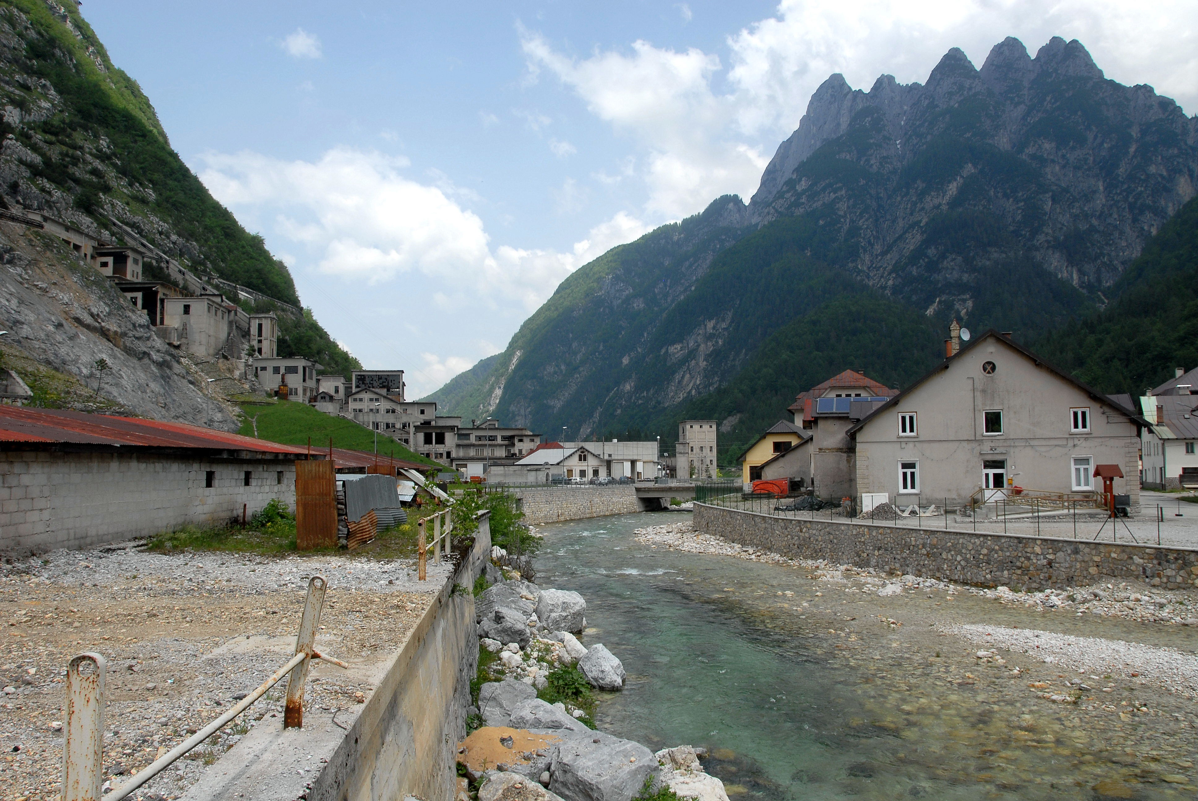 Rio del Lago (Lake brook), Cinque Punte (Five Peak Mountain) and miners village at the locality Cave del Predil (Raibl) in the community Tarvisio, province of Udine, region Friuli-Venezia Giulia, Italy